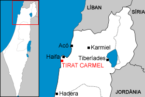 Localization of Tirat Carmel within Israel.